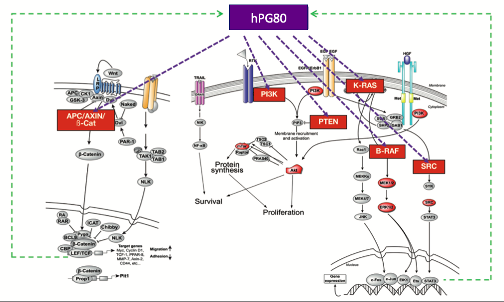 hPG80, key pillar of oncogenic pathways